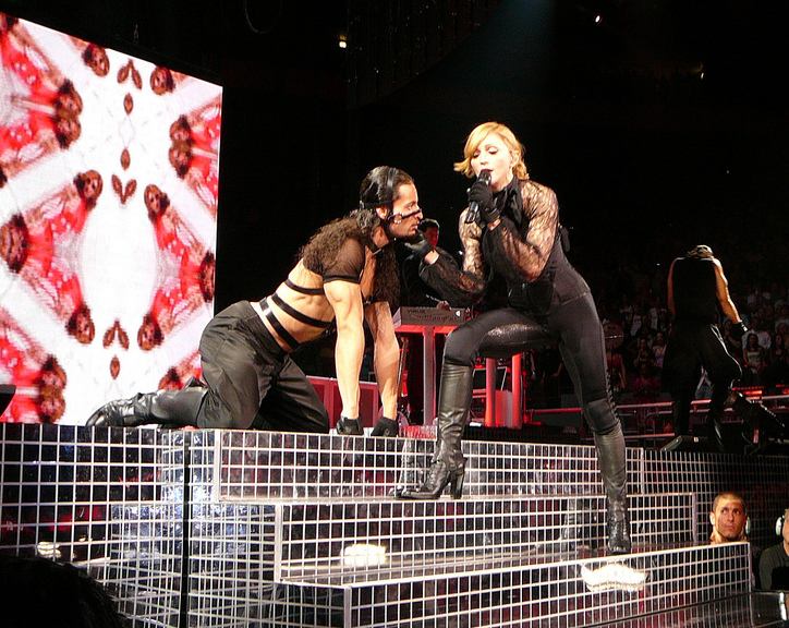 Photo taken at the concert